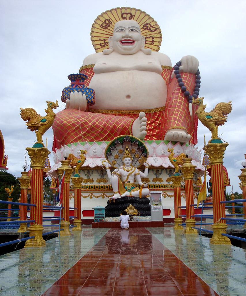 Huge statue of the monk "Budai", the so-called “laughing Chinese Buddha”, at Wat Nuan Naram, Plai Laem, Koh Samui, Thailand